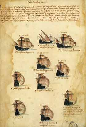 Depiction of the first squadron (led by Vasco da Gama) of the 4th Portuguese India Armada (1502) from the Livro das Armadas (Academia de Ciencias de Lisboa)